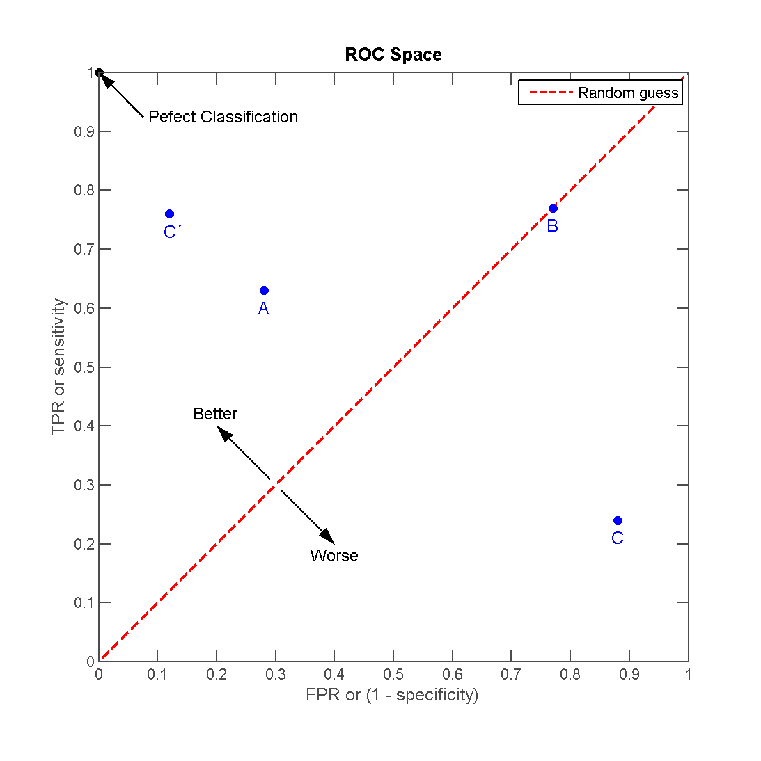 ROC space. See the explanation of each point in the Receiver Operating Characteristic article.